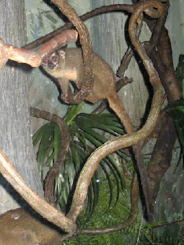 Northern Night Monkey at Bronx Zoo.